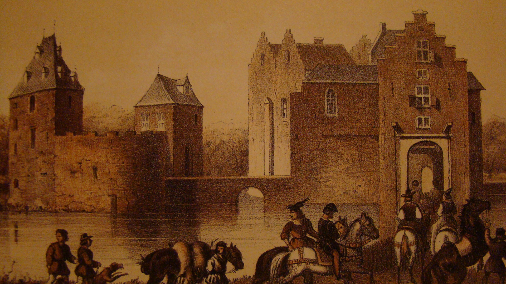 Castles of the Netherland, from the book "Merkwaardige kasteelen in Nederland" by Van Lennep and Hofdijk, 2nd release 1884.